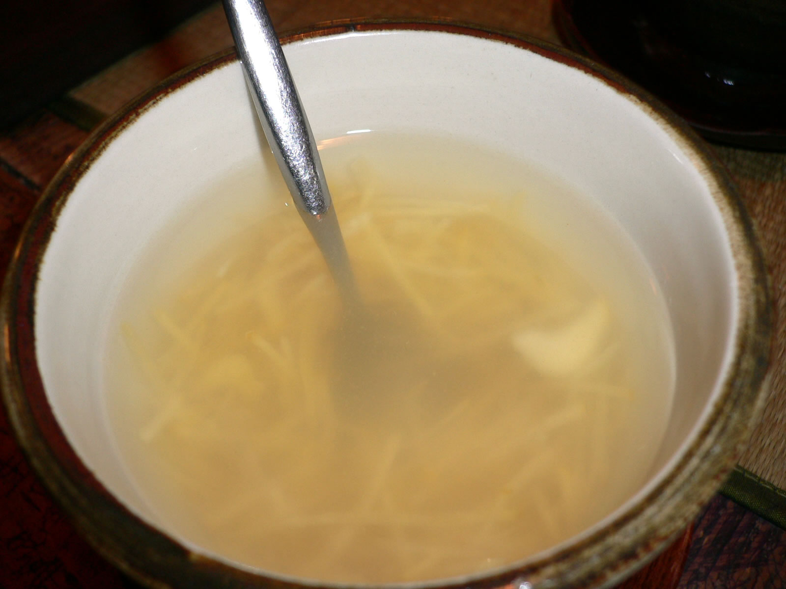 Mogwacha at a tea room in Insadong, Seoul, Korea